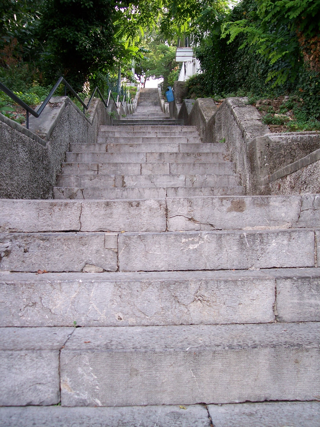 Petar Kruzic Stairway to Trsat district in city Rijeka (Croatia)